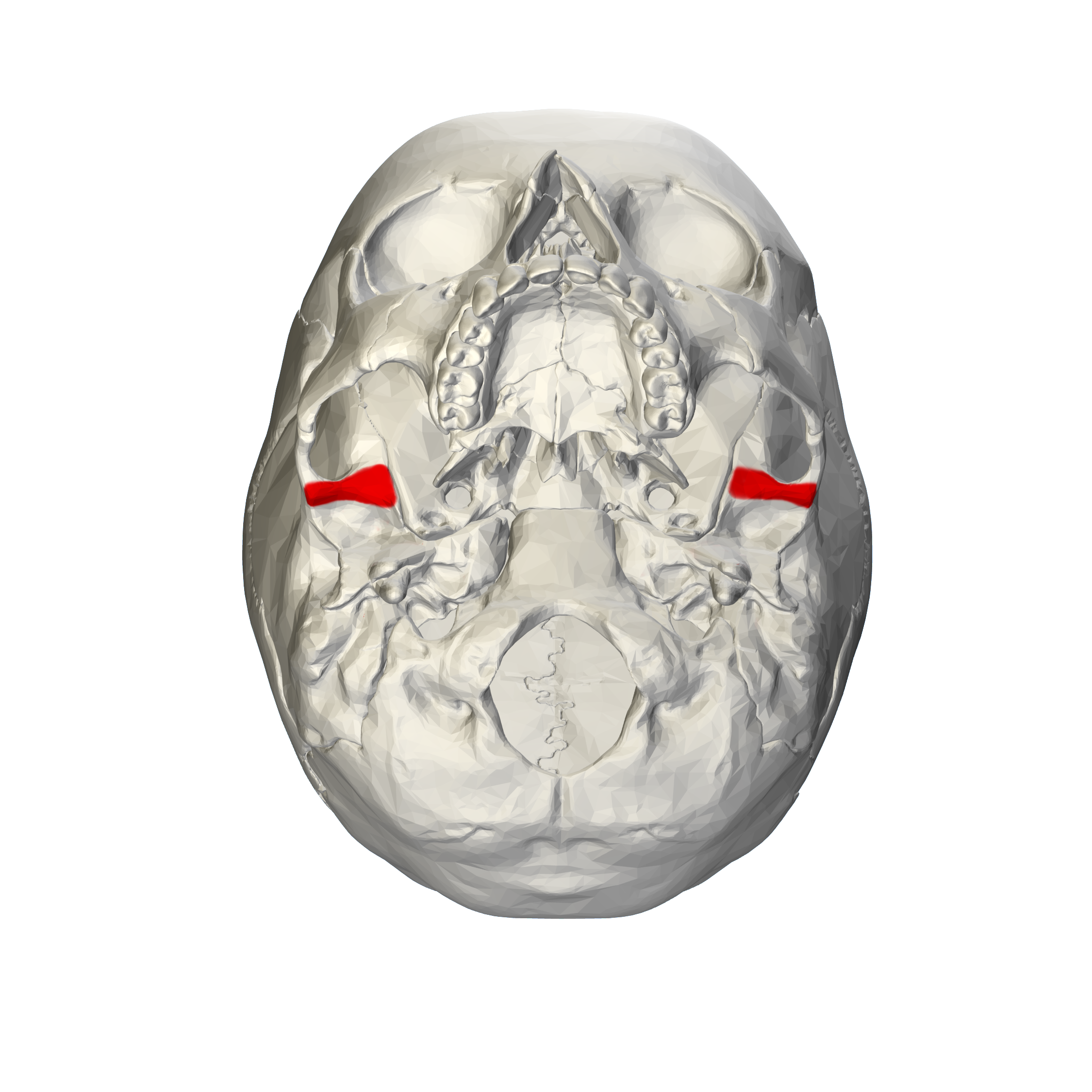 Articular tubercle. Shown in red.